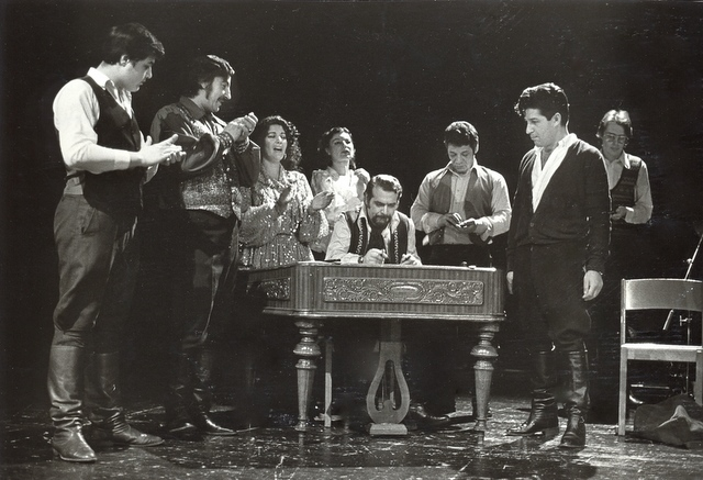 Drom Theater's play "The Black Ribbon", 1981-1982, written and directer by Cultural Counsellor, author Veijo Baltzar.